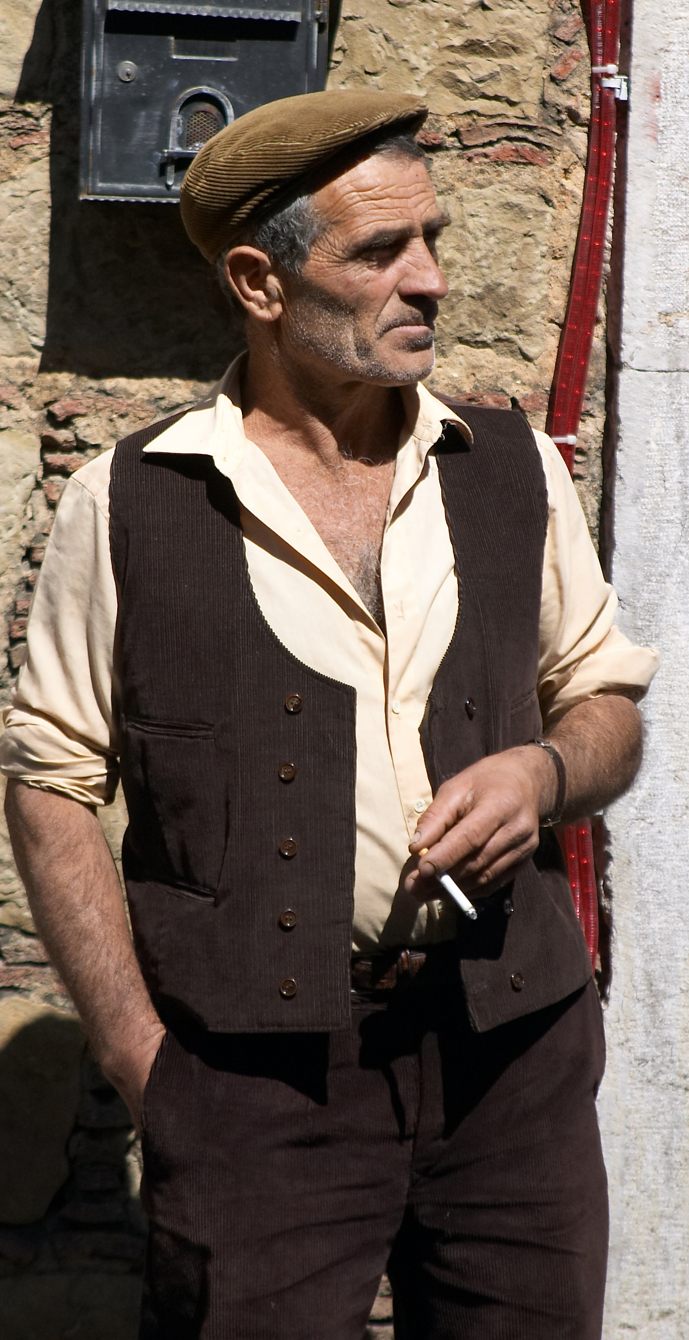 A Sicilian man. Sicilianu: N'uomu sicilianu.